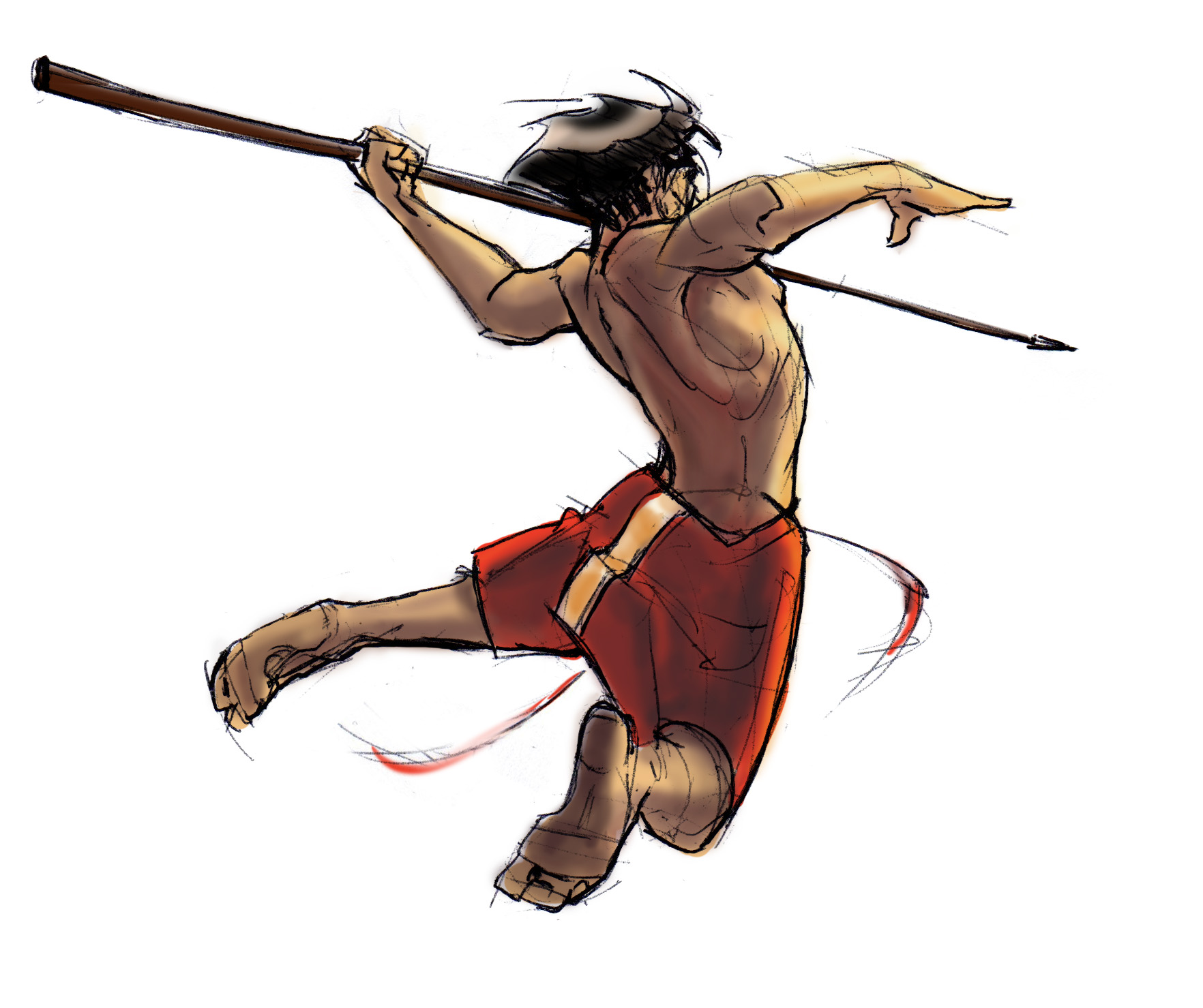 Teancum: The Assassination of Amalickiah. Image by Josh Cotton. For more Book of Mormon images